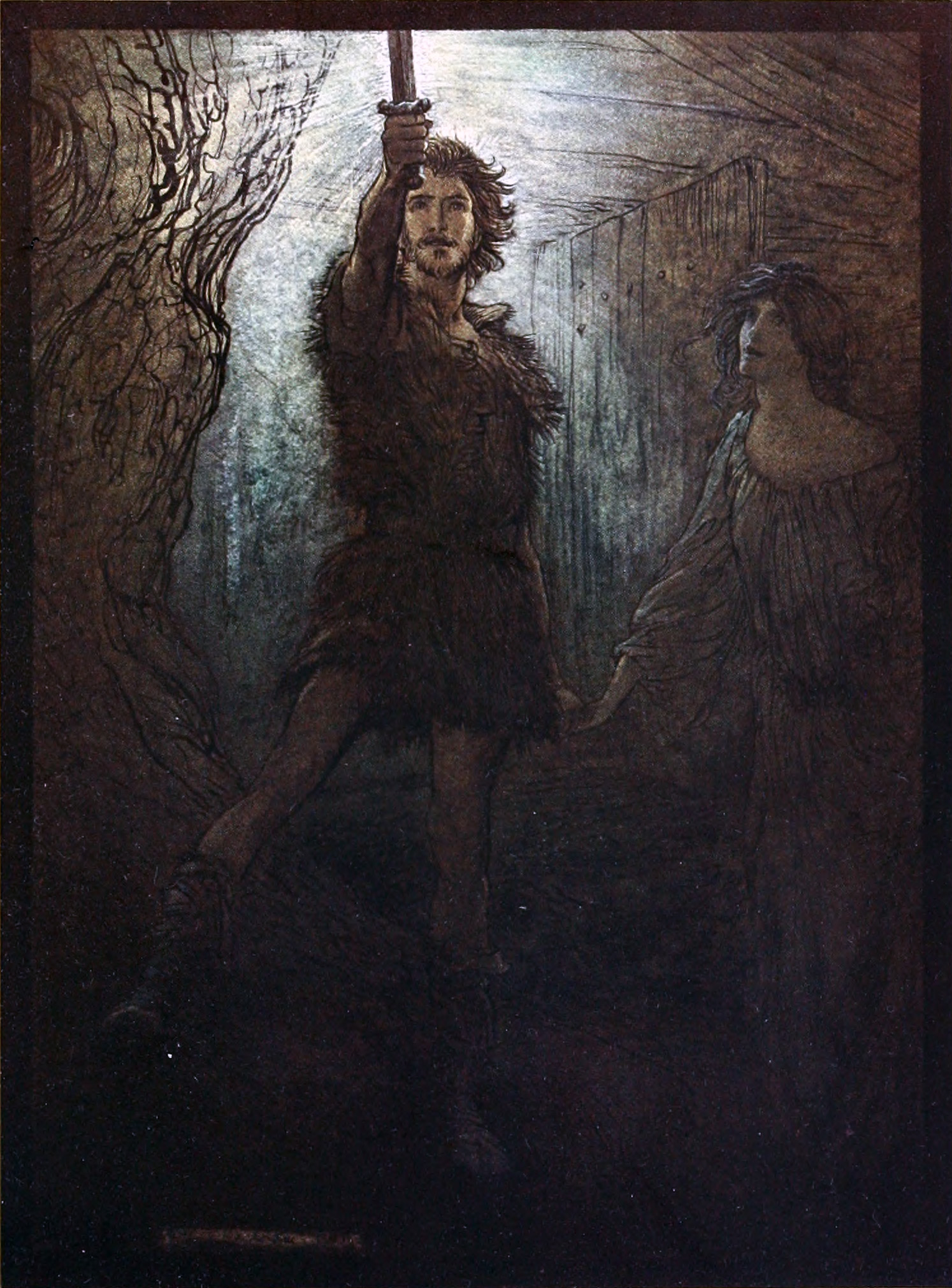 "Siegmund the Walsung / Thou dost see! / As bride-gift / He brings thee this sword."